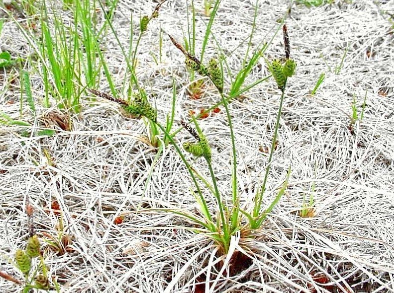 Carex bigelowii